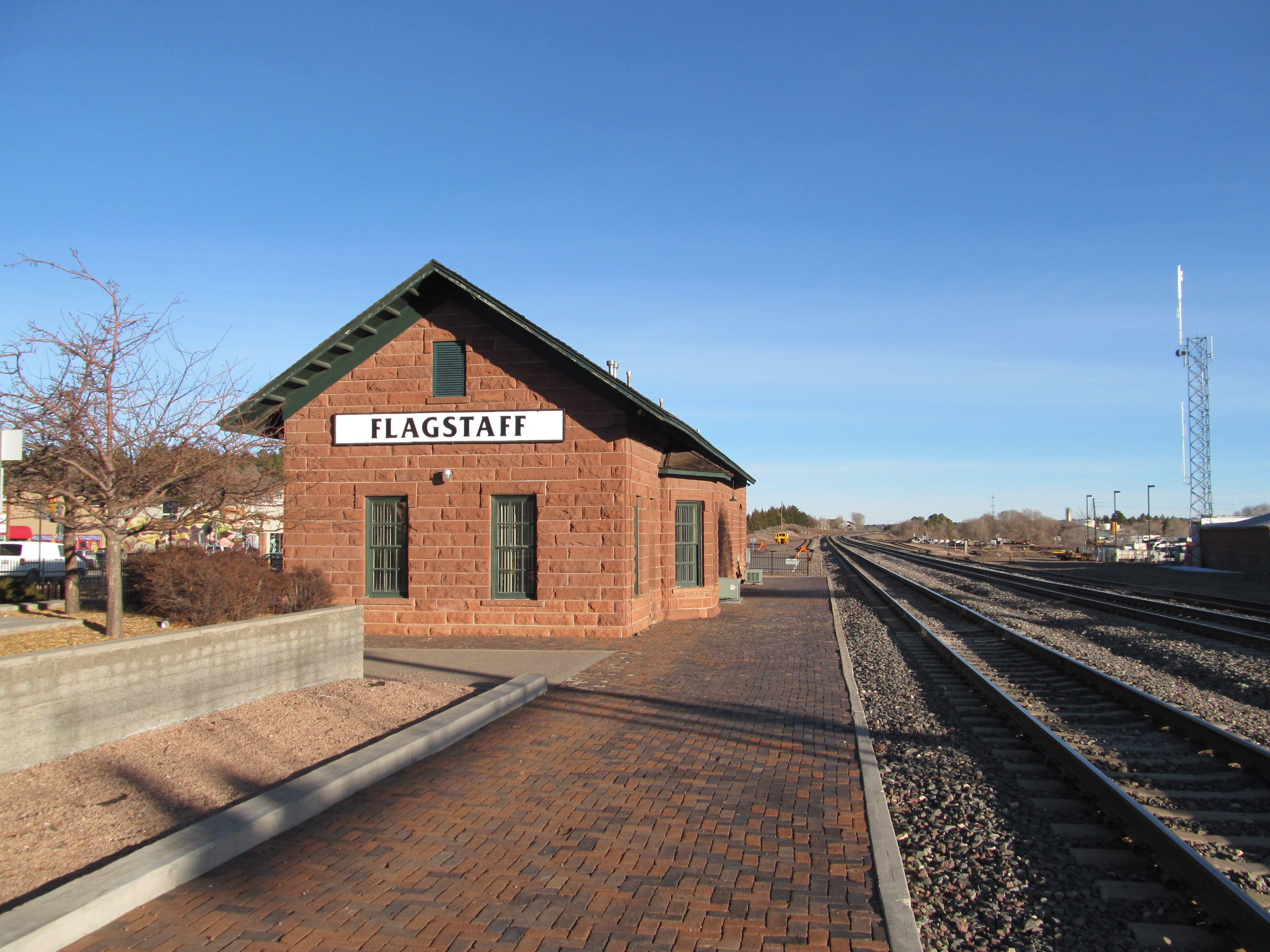 The former Atlantic and Pacific Railroad station in Flagstaff Arizona Built in 1886 as a passenger/freight depot, it is now an office for the BNSF Railway. Adjacent to the Flagstaff Santa Fe—Amtrak station.